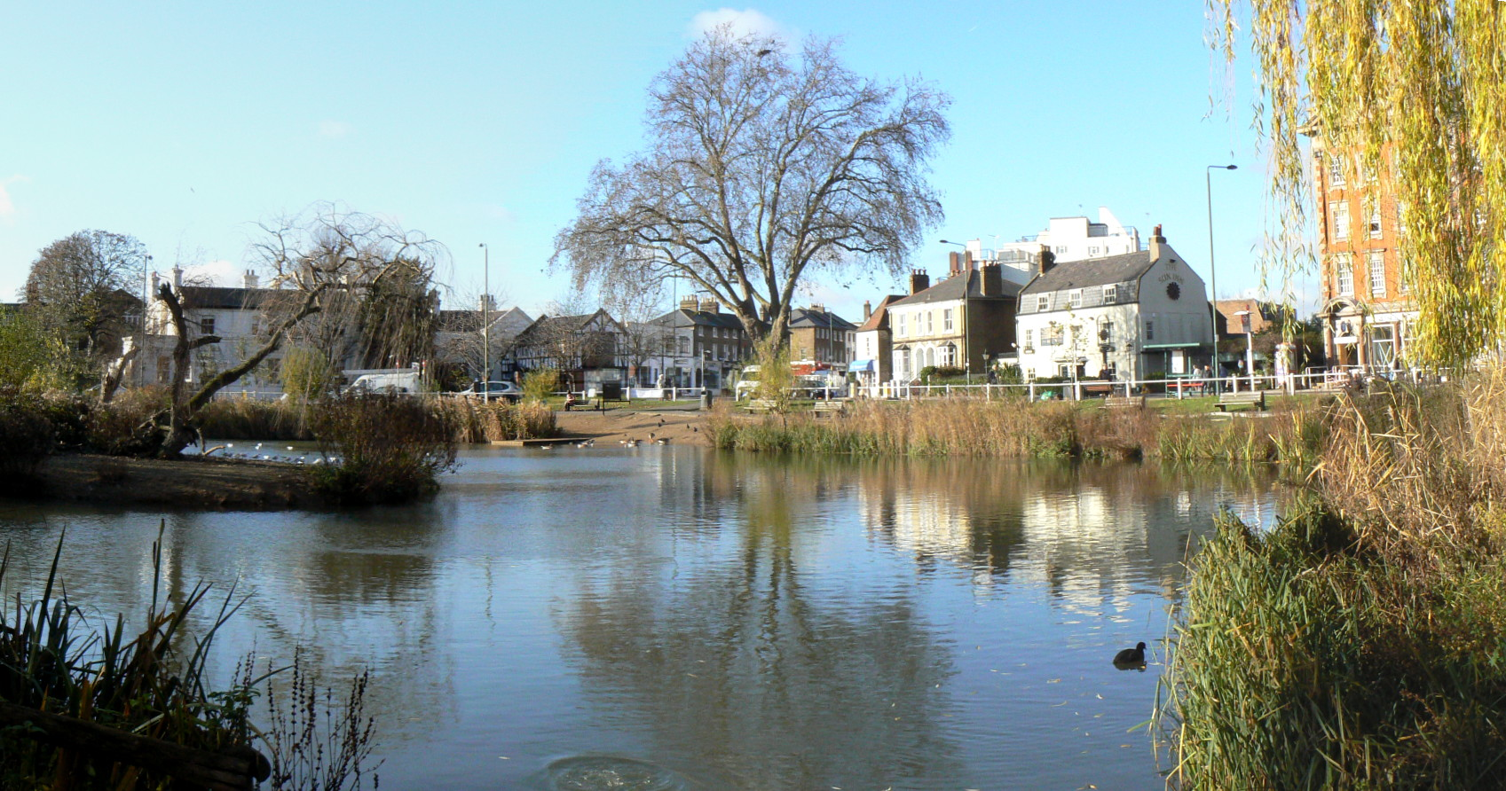 Barnes Pond, London. Panoramic made from 2 photos. Originally on Wikipedia, where it gained a 'candidate to be copied' note.